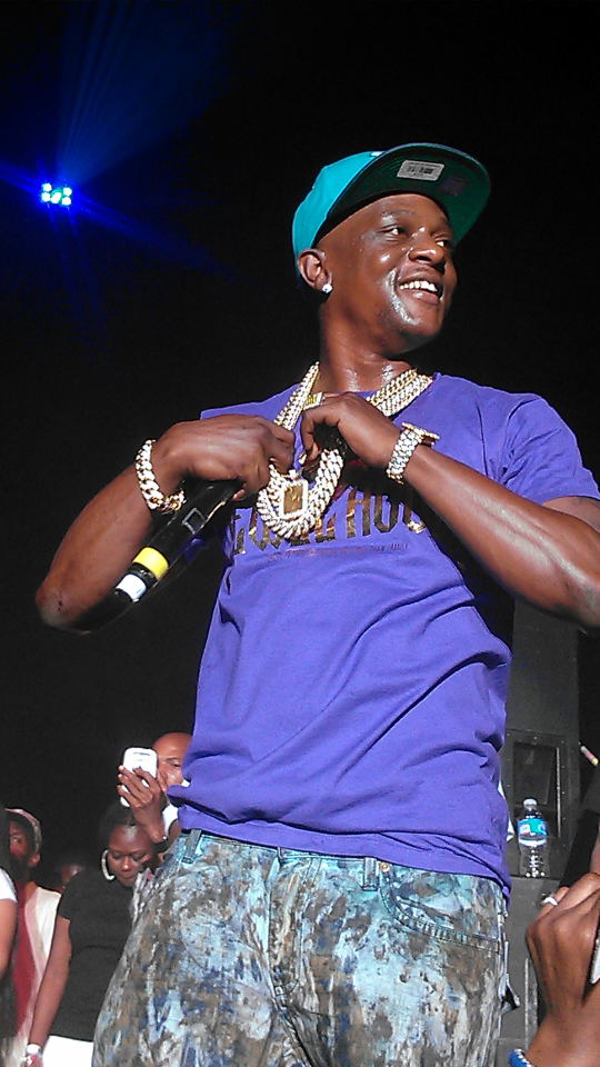 Lil Boosie in concert July 25th, 2014